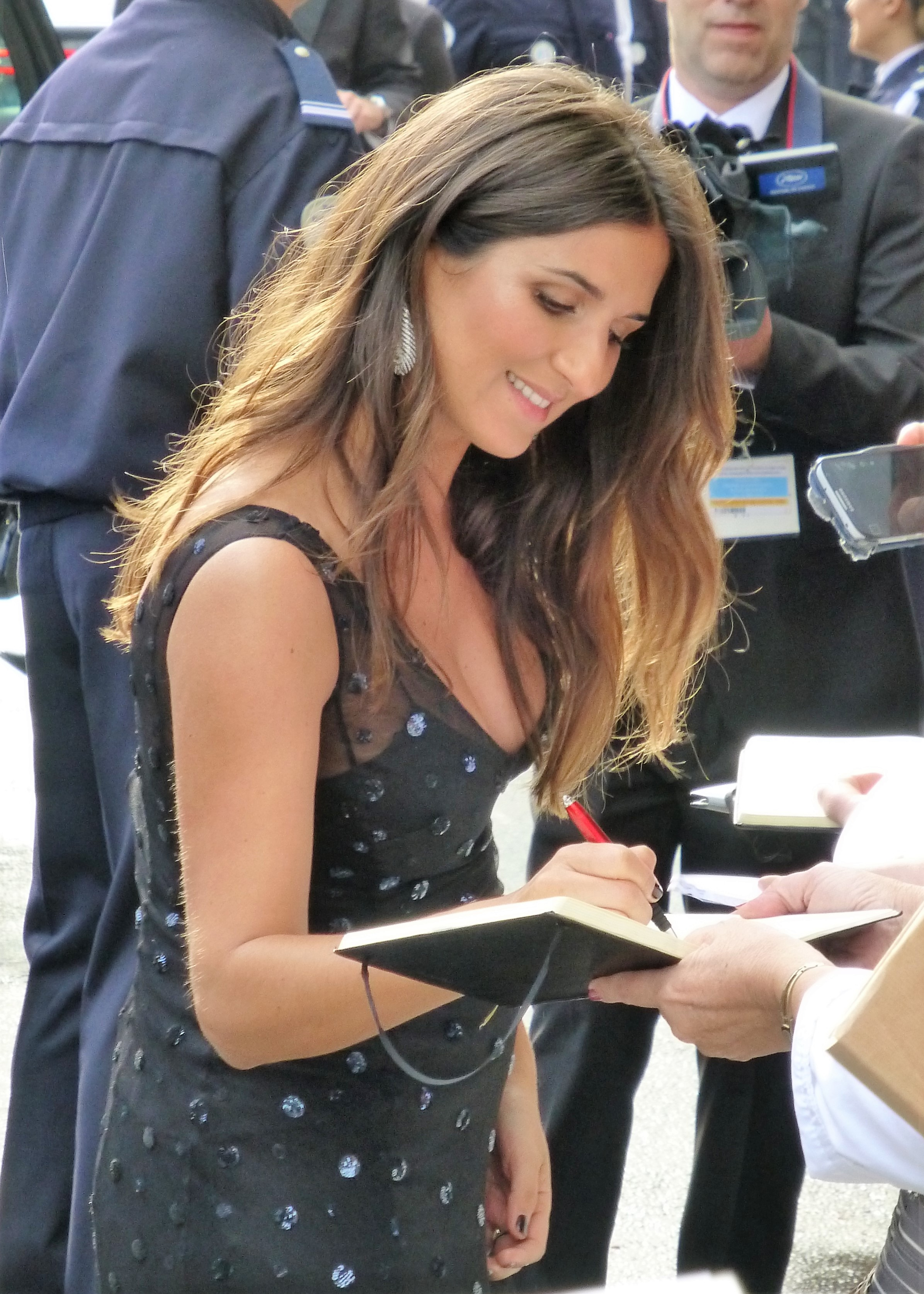 Geraldine Nakache at the world premiere of Cafe Society, 2016 Cannes Film Festival